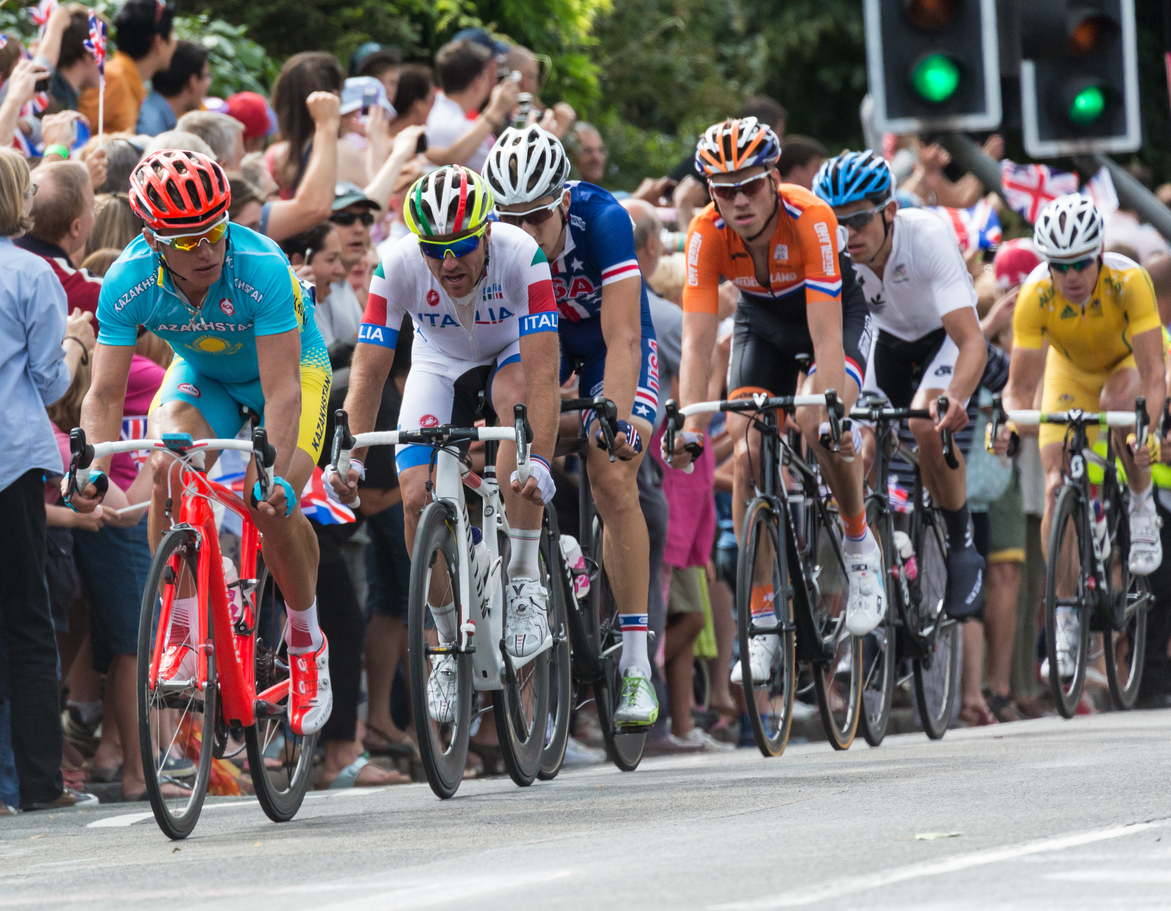 Alexander Vinokourov leading the breakaway group of the 2012 London Olympic Road Race along Upper Richmond Rd, approximately 10km from the finish line at The Mall.